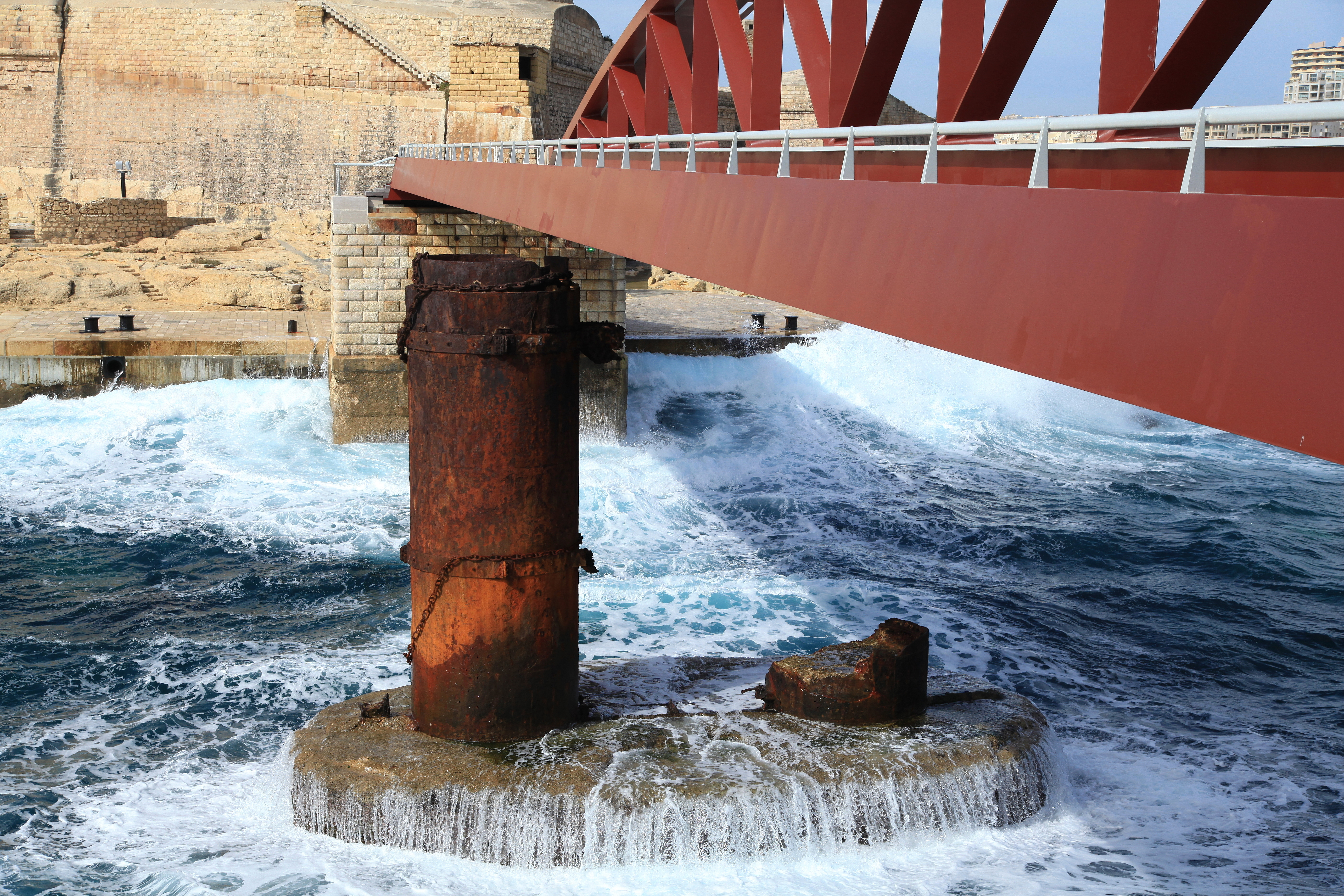 St. Elmo Bridge, Triq il-Lanċa in Valletta, Malta